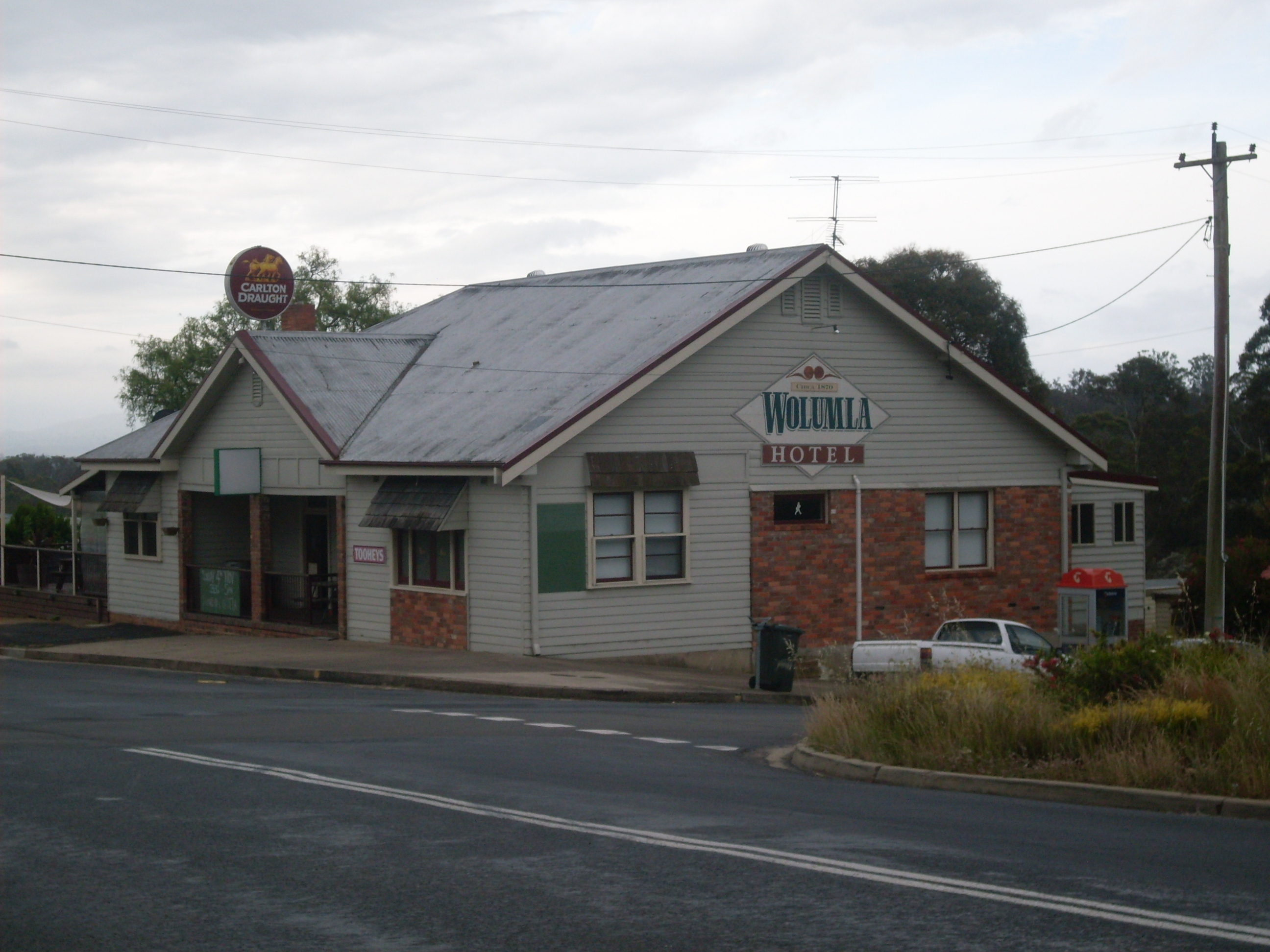 Wolumla Railway Hotel, Candelo Wolumla Road, Wolumla, NSW